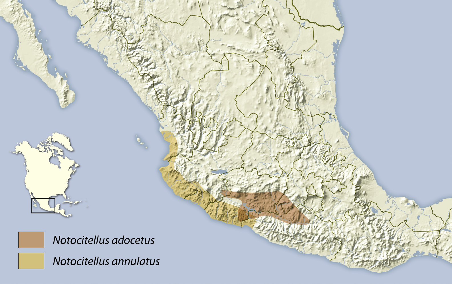 Distribution map of the genus Notocitellus